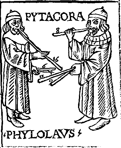 Pythagoras and Philolaus experimenting with musical pipes. From Theorica musicae by Franchino Gaffurio, 1492 (1480?)